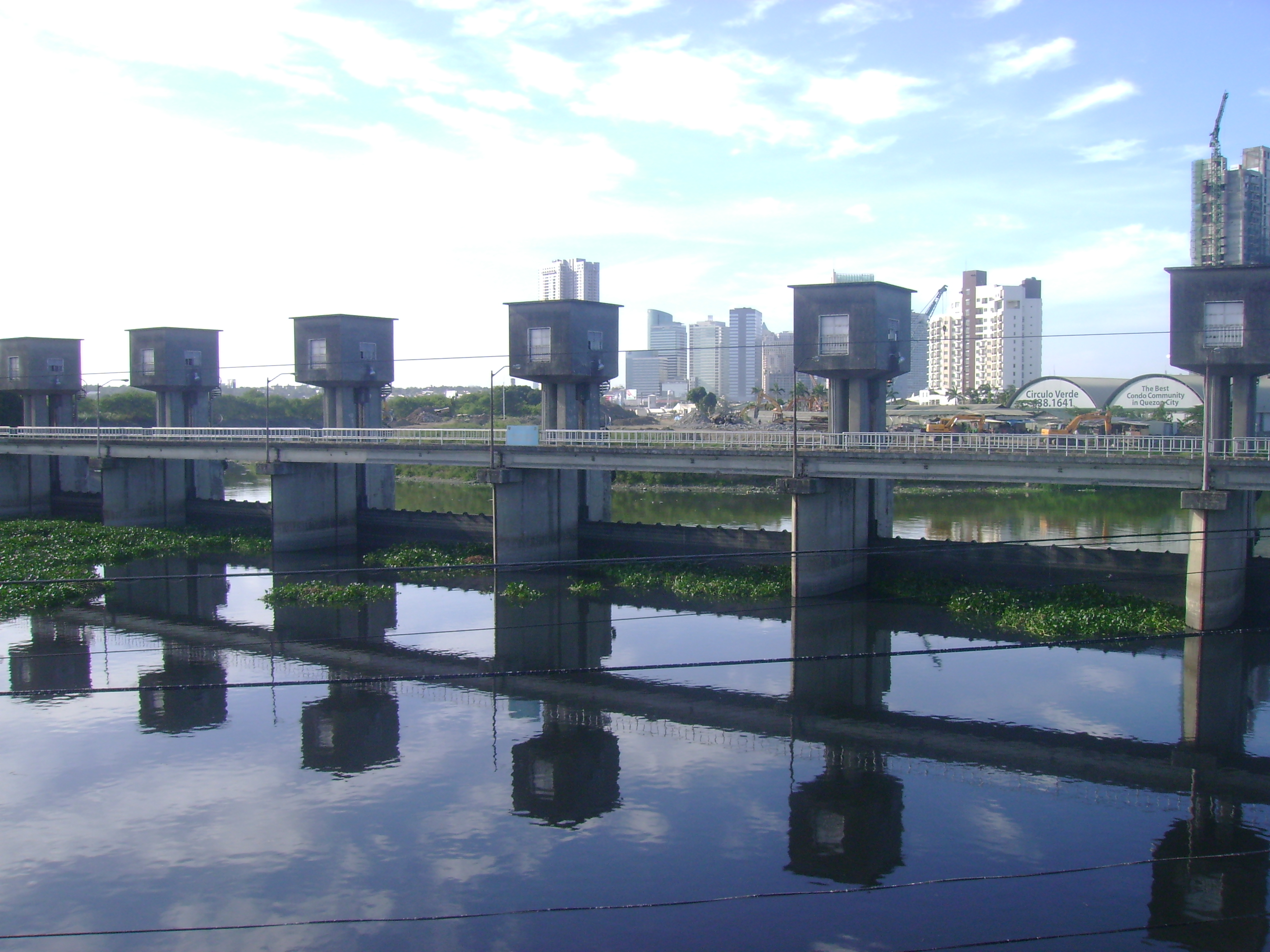 Manggahan-floodway,Pasig City